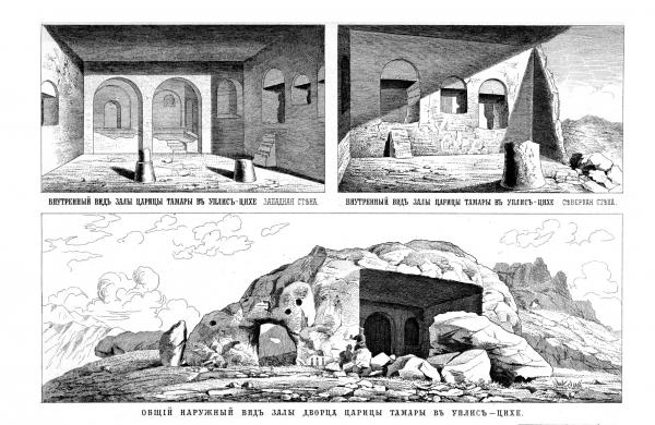 The "Hall of Queen Tamar" in the medieval Georgian cave town of Uplis-Tsikhe, an illustration from K.P. Yanovsky's Collection of the Materials for the Places and Tribes of the Caucasus (in Russian, 1881-1915)